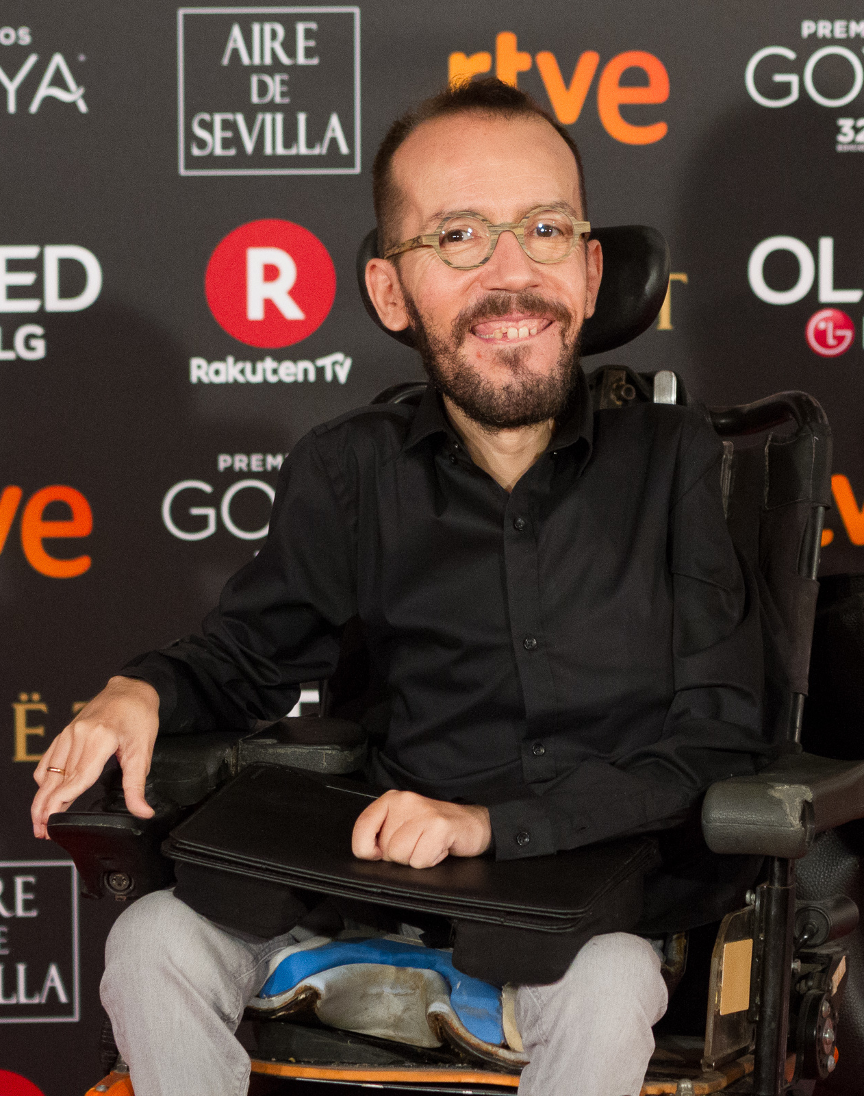 32nd Goya Awards, 2018.